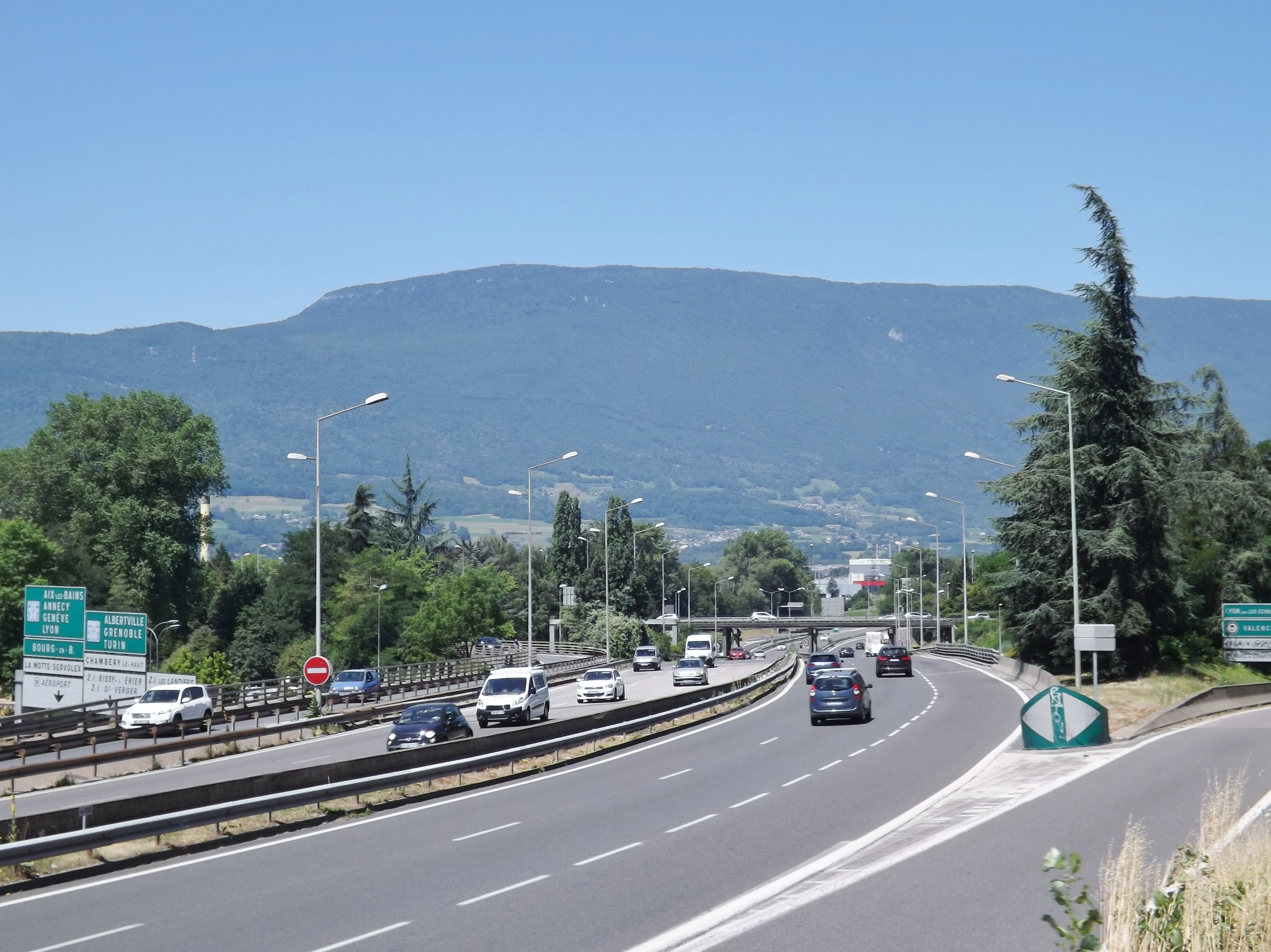 Sight of the Voie rapide urbaine highway crossing Chambéry and its agglomeration, at the Boisse interchange n# 15, in Savoie, France.